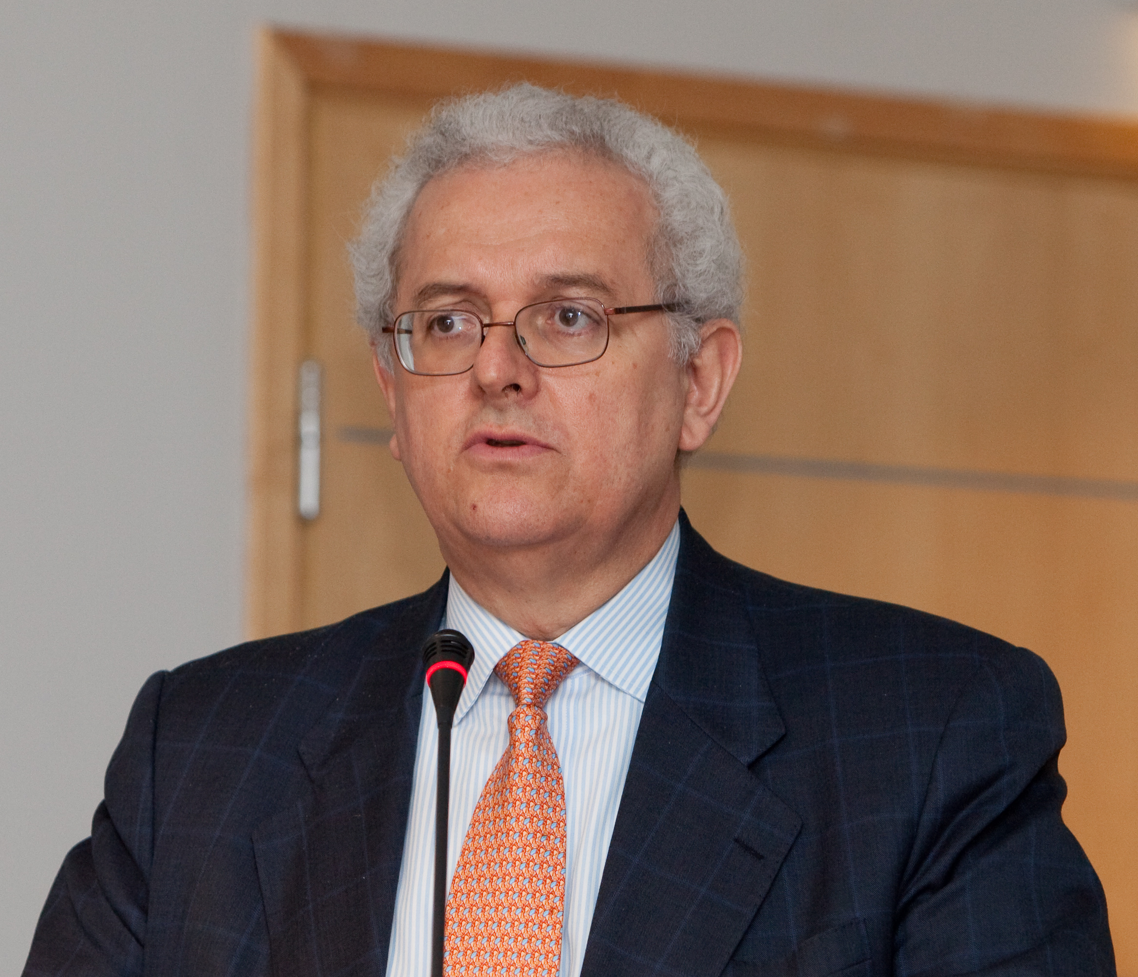 José Antonio Ocampo, Professor, Columbia University.